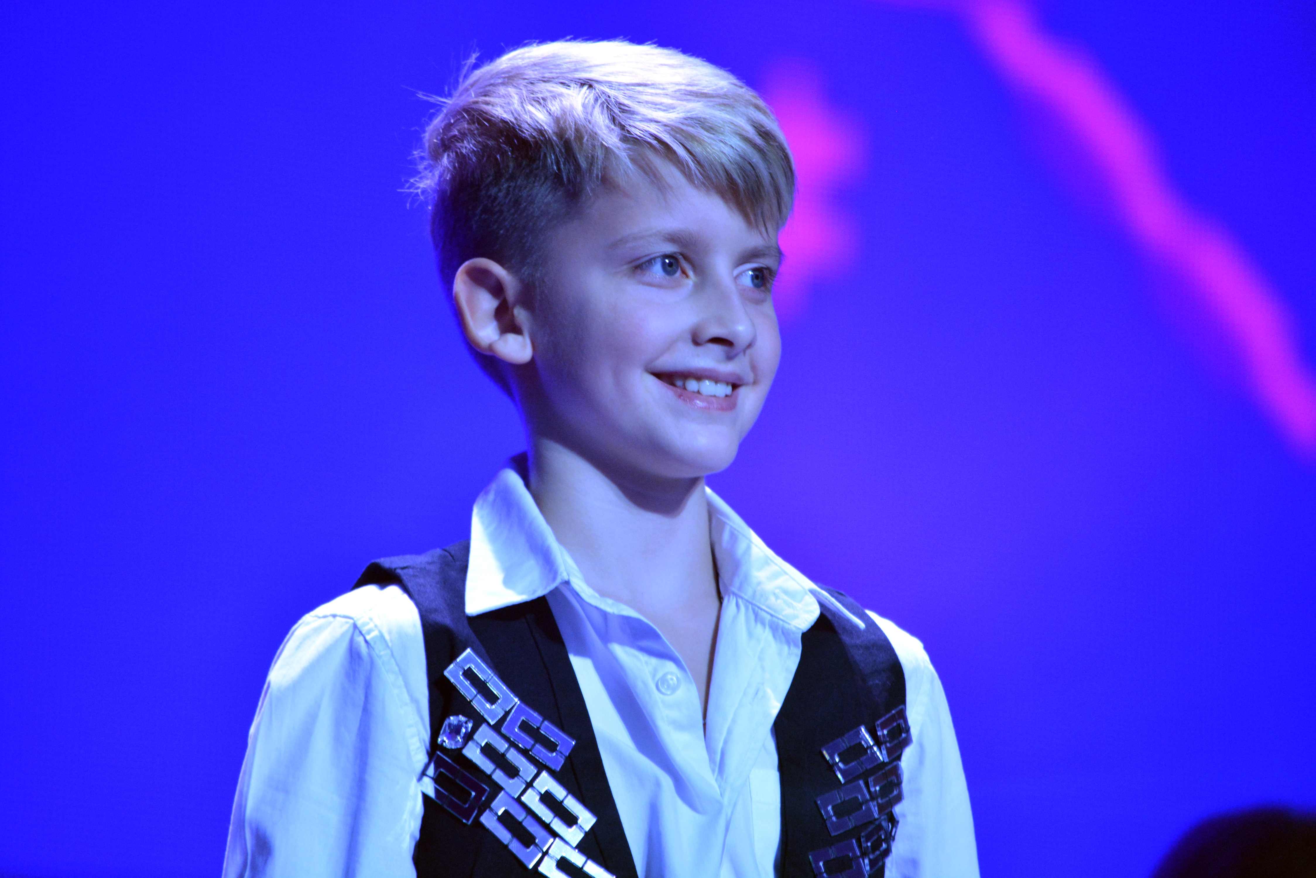 JESC 2013 (Belarus) Ilya Volkov at rehearsal